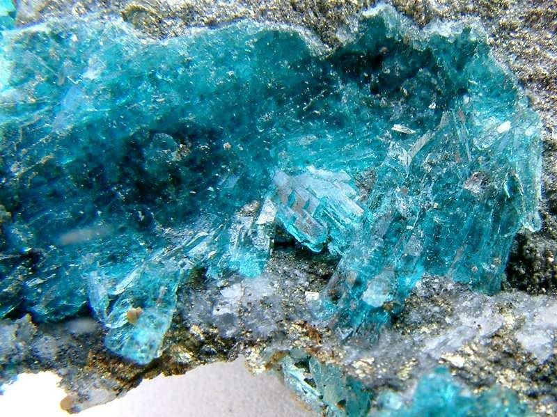 Melanterite, variety Cuprian Melanterite (picture width: 20 mm) - The matrix is a soft gray rock with abundant pyrite. Locality: Parys Mountain Mines (Paris Mine; Parys Mine; Mona Mine; Morfa Du Mine), Amlwch, Isle of Anglesey (Gwynedd; Anglesey), Wales, UK